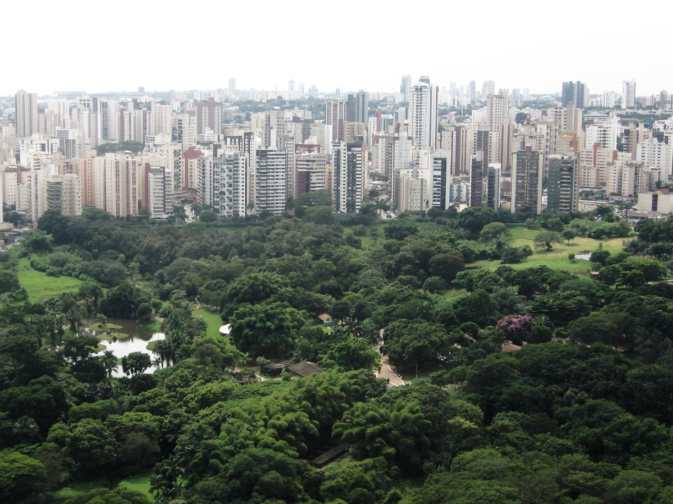 Goiânia skyline from the air, Zoo in the foreground.